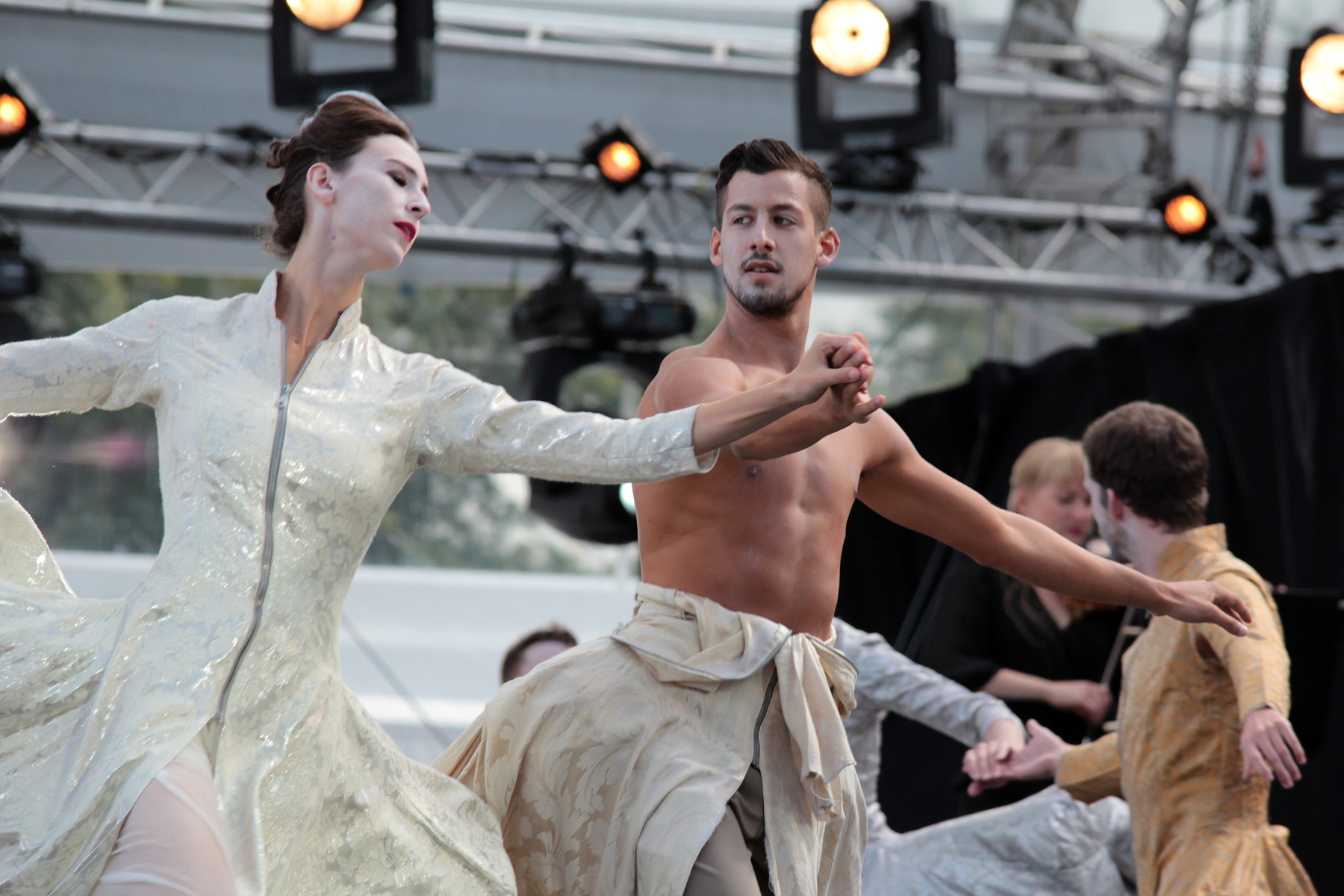 Scapino Ballet Rotterm at the Uitmarkt in Amsterdam